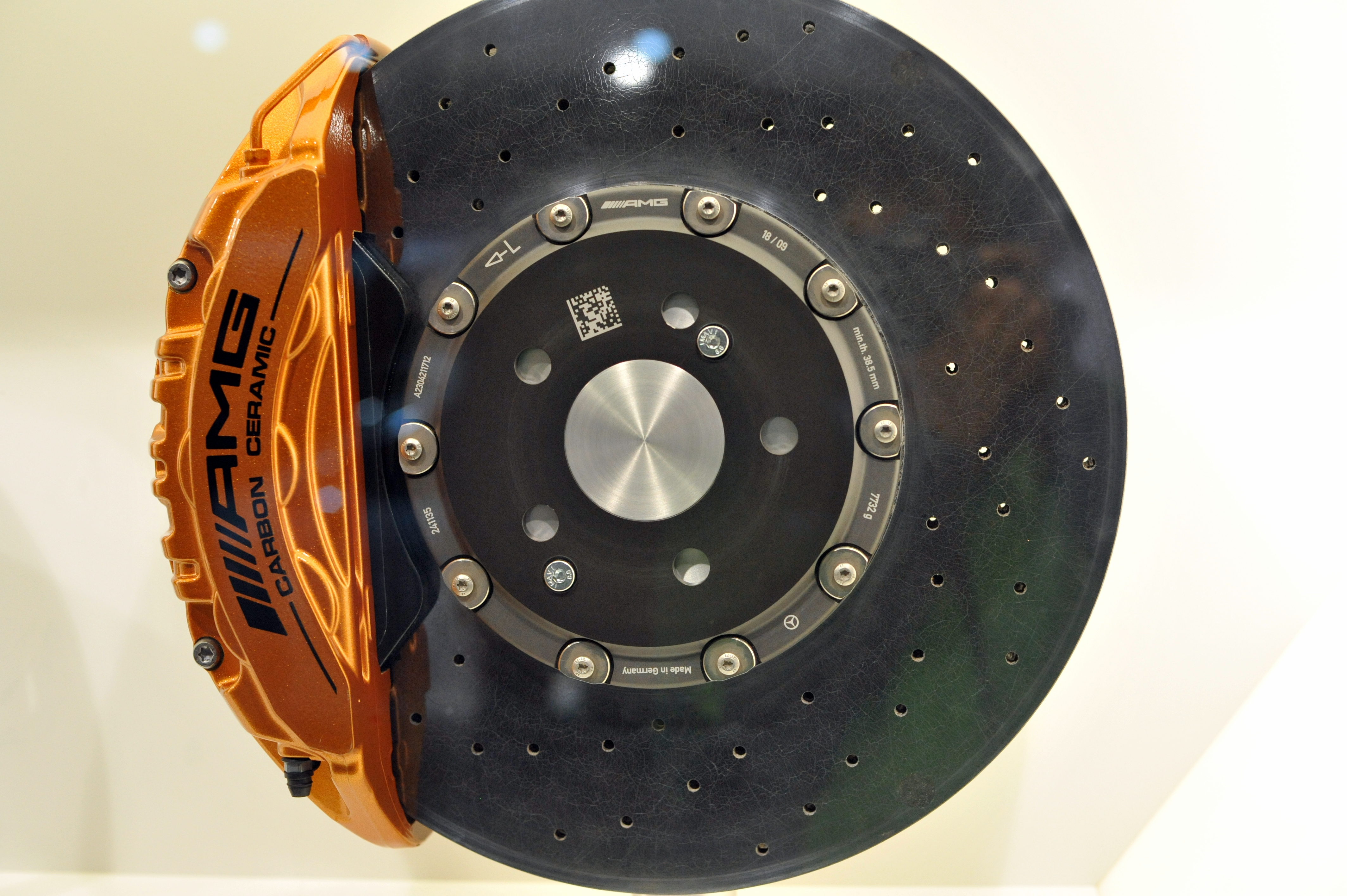 Salon Auto Show, Geneva - AMG carbon ceramic brake for use in fast cars